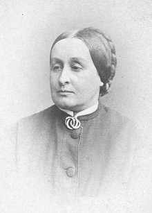 Karolina Světlá